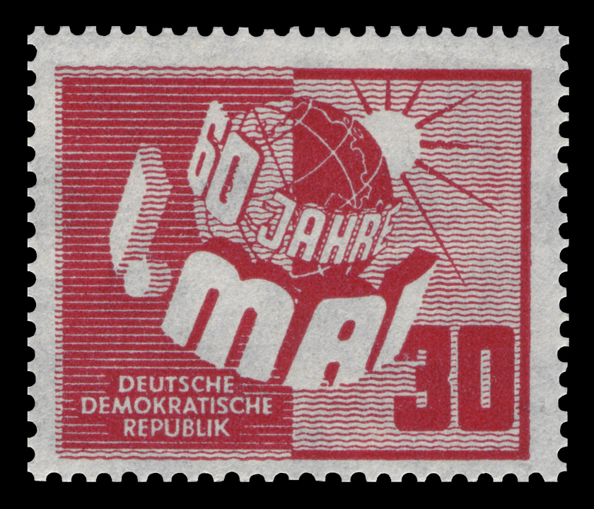 60 years of May Day Ausgabepreis: 30 Pf First Day of Issue / Erstausgabetag: 1. Mai 1950 Michel-Katalog-Nr: 250